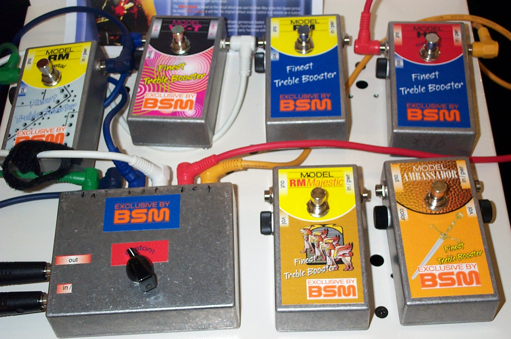 Lots of (treble) boosters at BSM.